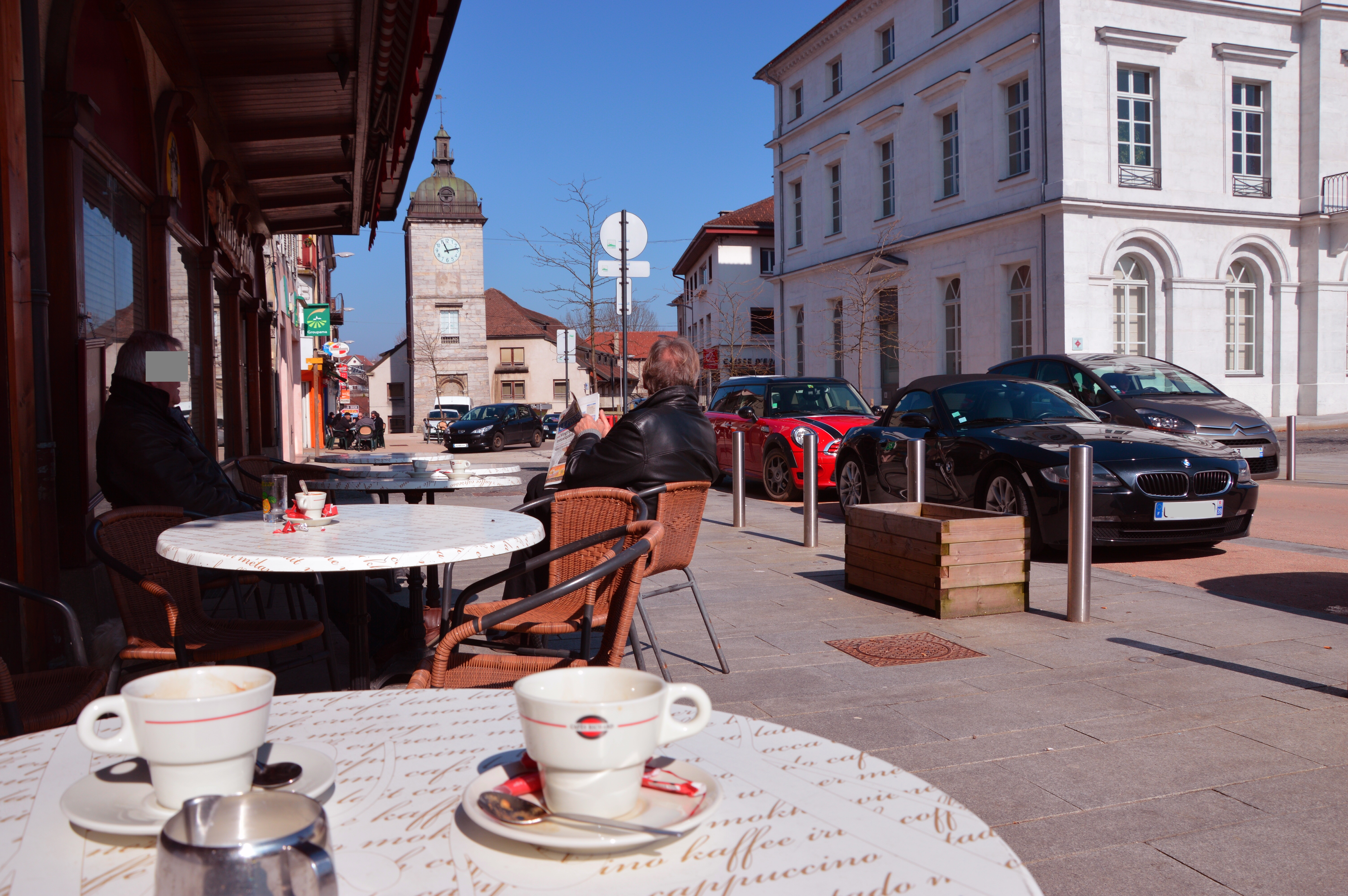 Champagnole downtown, Jura, Franche-Comté. Café in the Avenue de la République. In the background the water tower.